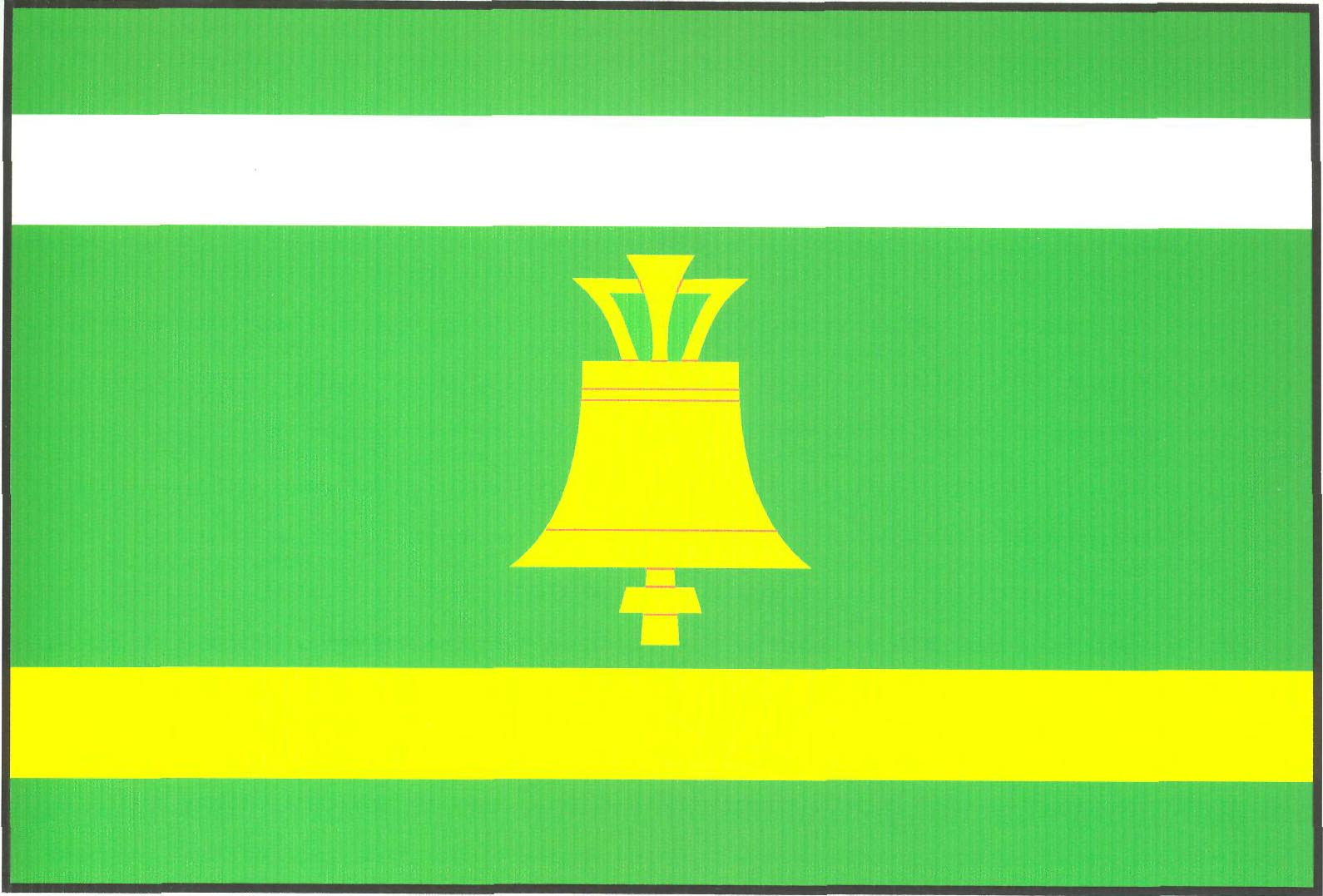 Municipal flag of Bratřínov village, Prague-West District, Czech Republic.